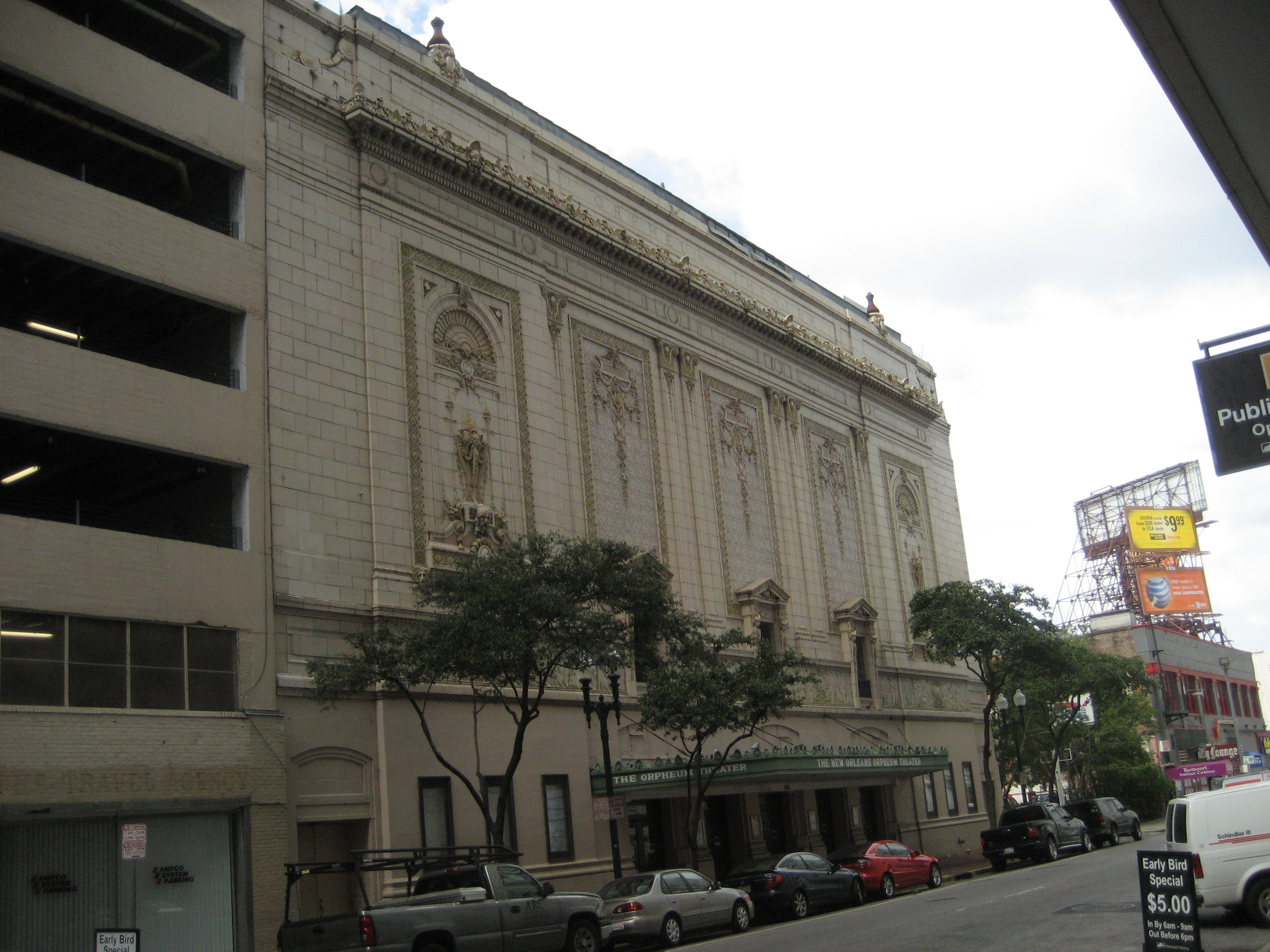 Orpheum Theater building, New Orleans Central Business District